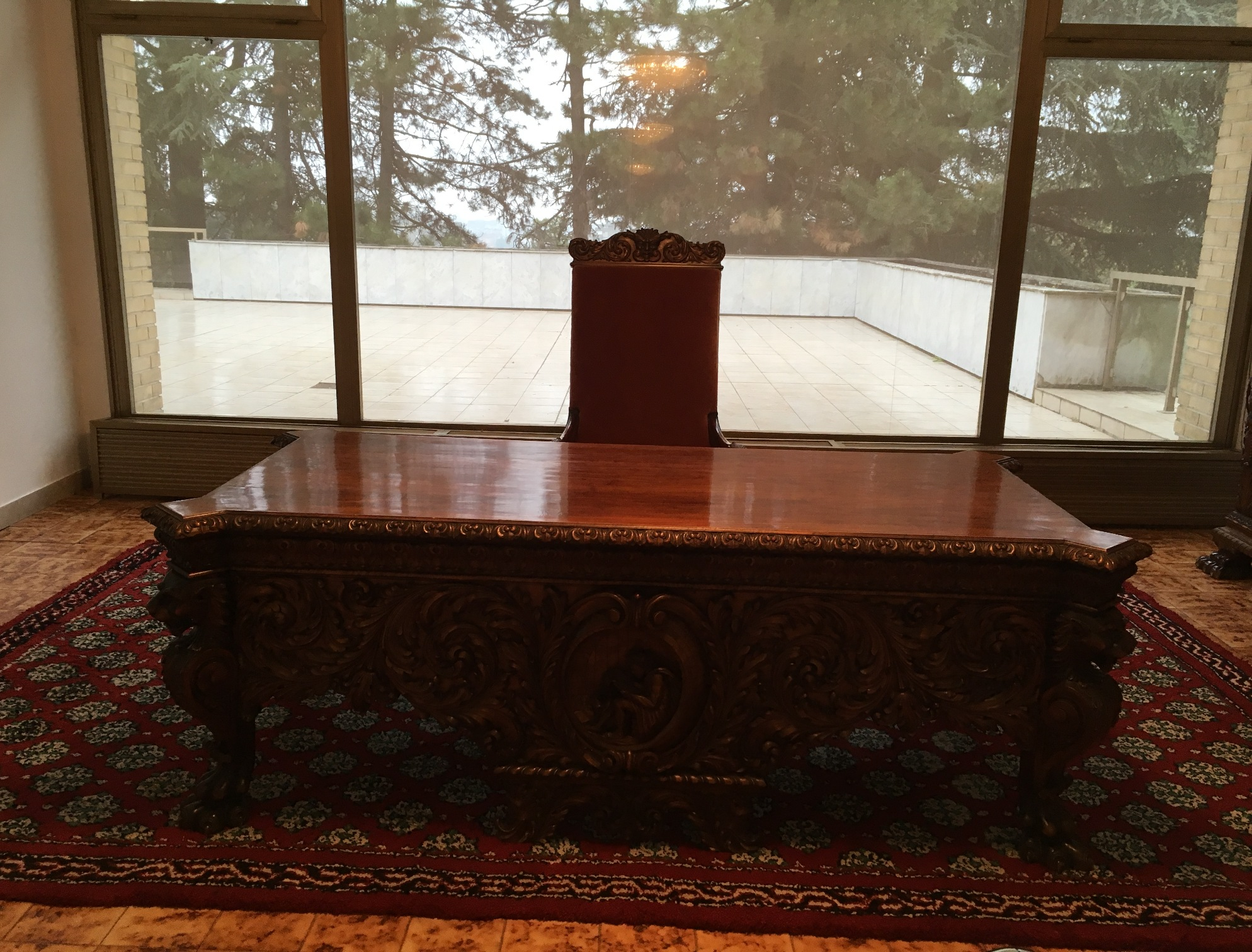 Josip Broz Tito's cabinet in Museum of Yugoslavia, Belgrade